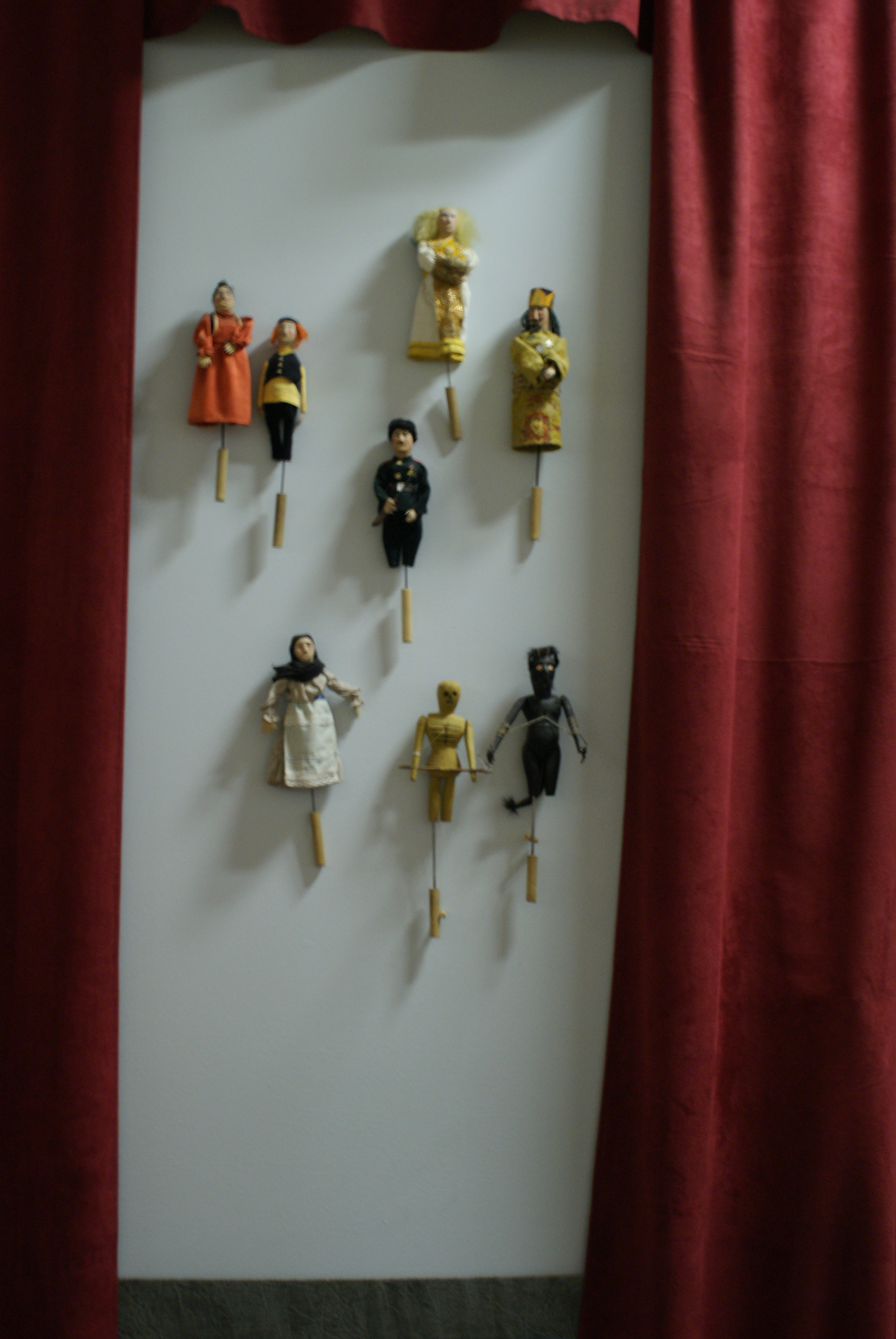 Batleika dolls